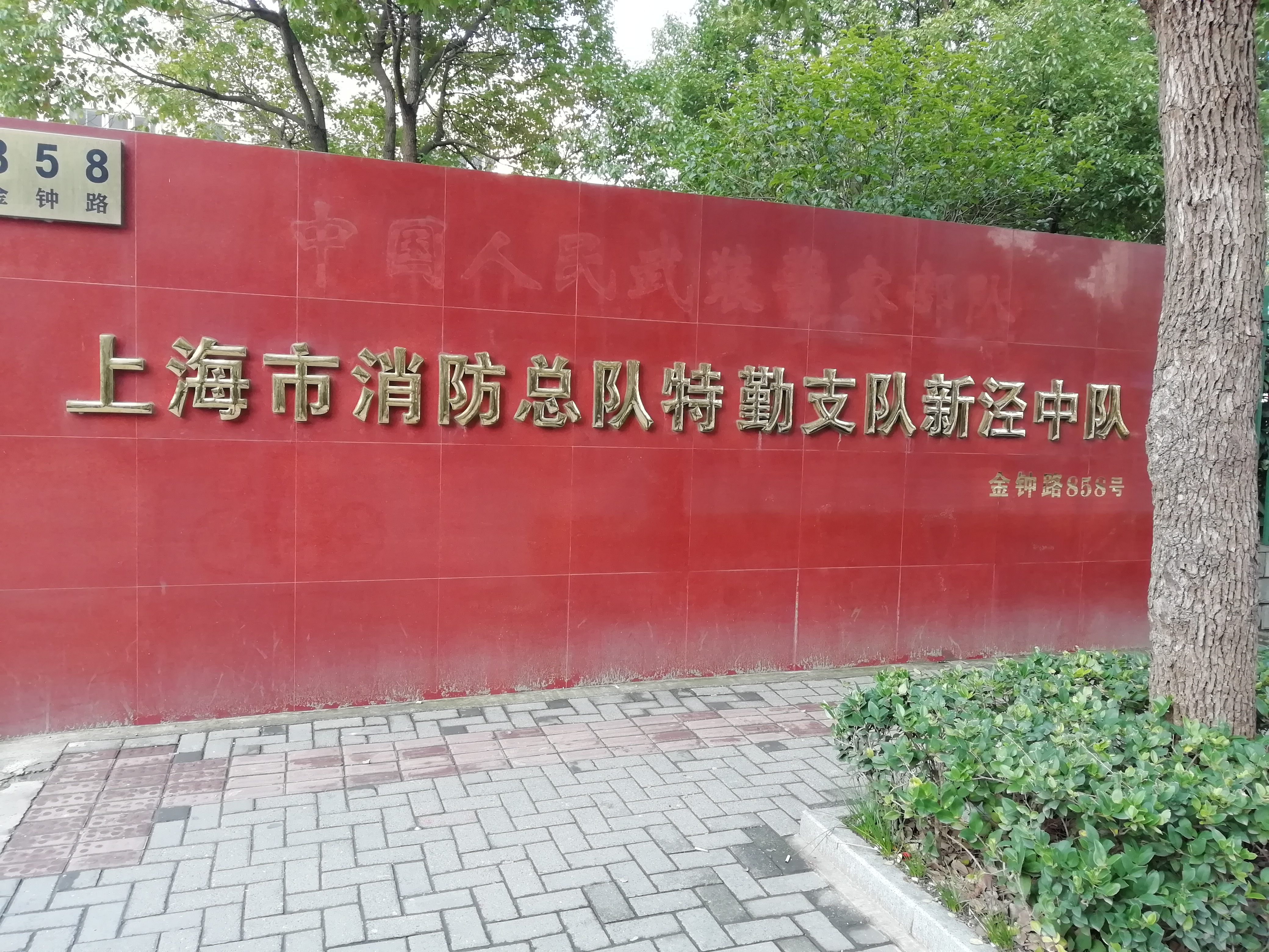 Xinjing Fire Station after Government Agency Reform. Before this reform, it belongs to the Chinese People's Armed Police Force.